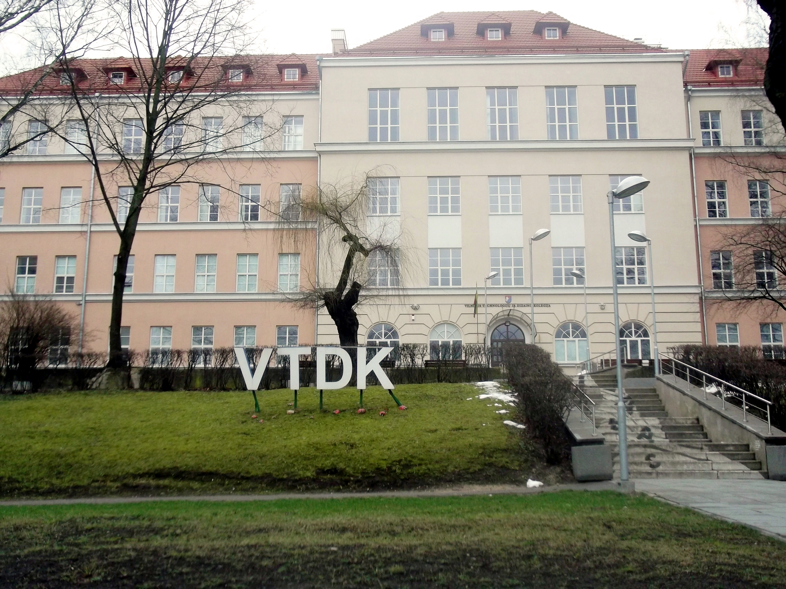 Vilnius College of Technologies and Design, Lithuania. View from the street.